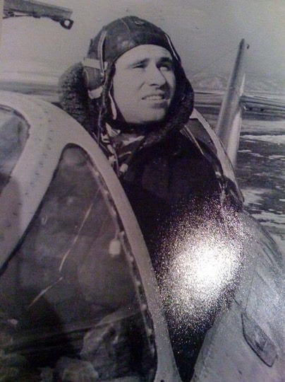 На фотографии изображён советский лётчик Яков Мотлохов в кабине своего боевого самолёта Миг-15